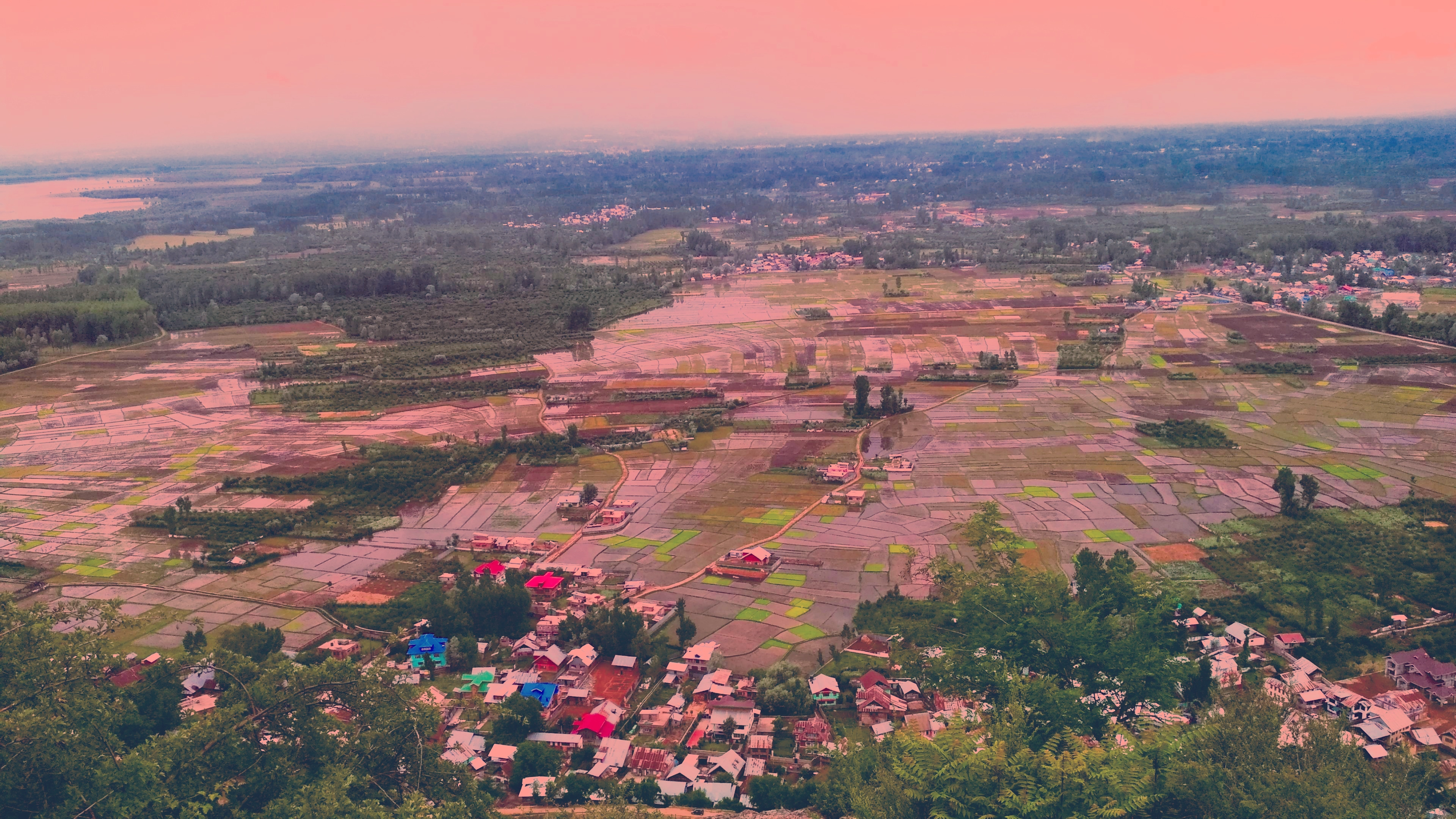 John dar